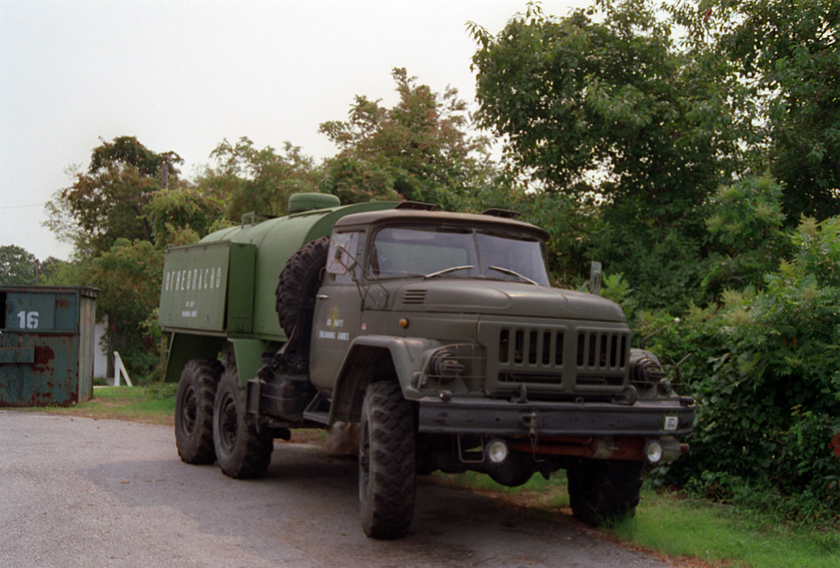 A right front view of a ZIL-131 6x6 fuel truck parked at the Naval Sea Systems Command facility at Solomons Annex. The truck is used to supply fuel for missiles on the USNS HIDDENSEE (185NS9201). The Soviet-built Tarantul I class missile corvette was acquired from the Federal German navy in November 1991, and is currently undergoing testing and evaluation by the U.S. Navy. Named Rudolf Egelhofer in the East German navy, the ship was renamed HIDDENSEE after the reunification of Germany in 1990.